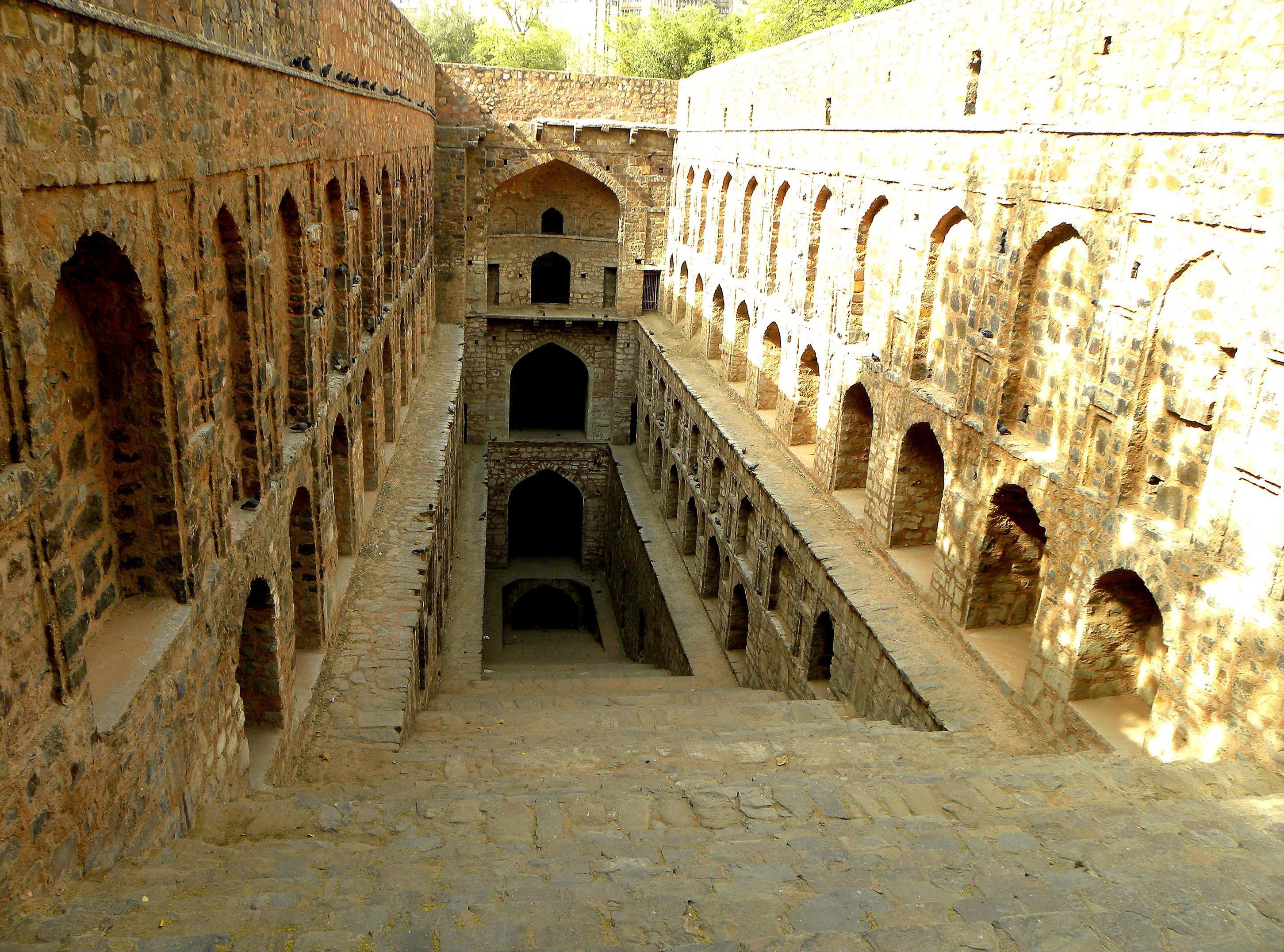 Ugrasen ki bowli in Delhi